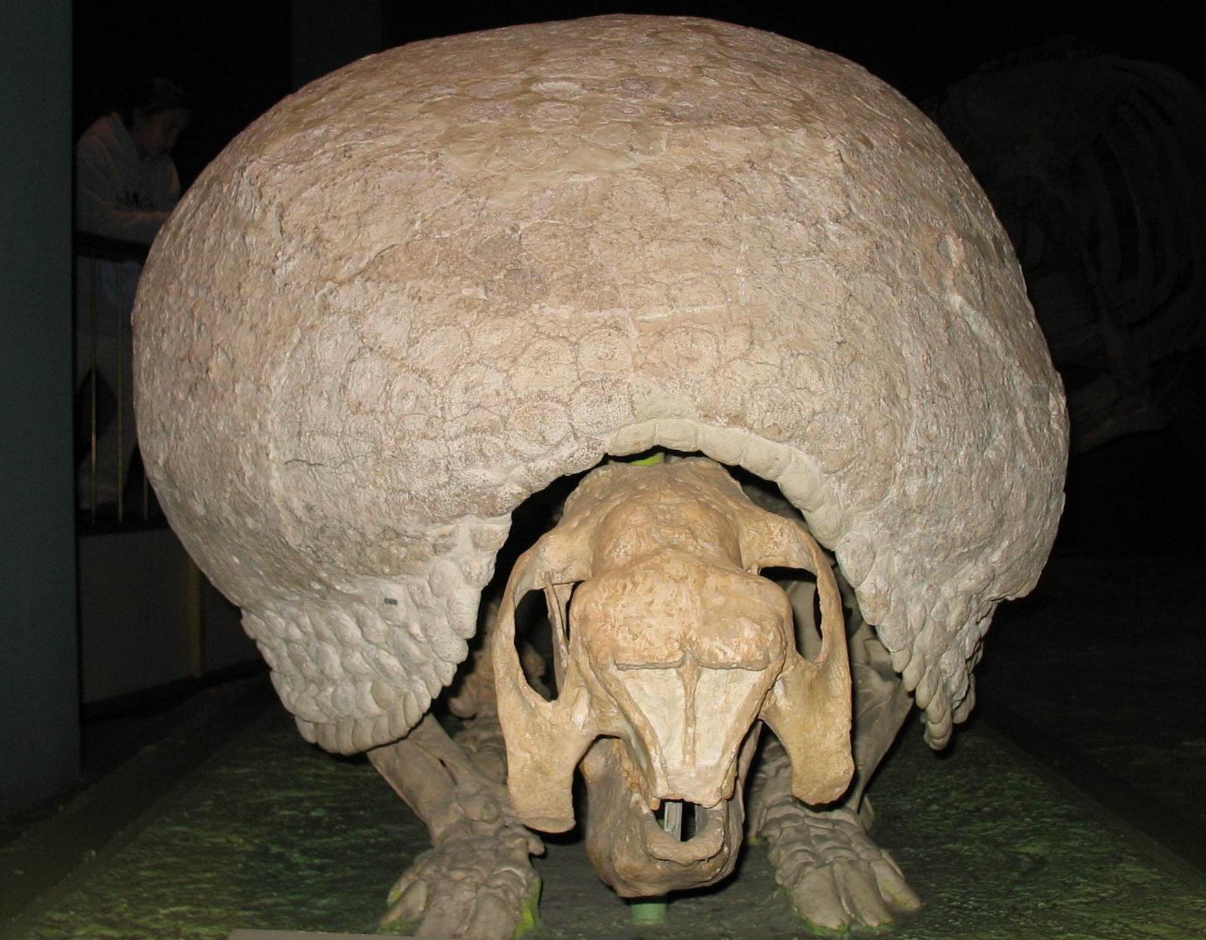 Crop of file in filename